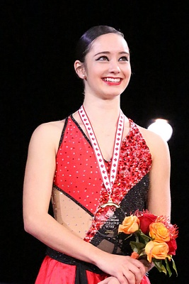 Kaetlyn Osmond at the Sкate Canada 2012